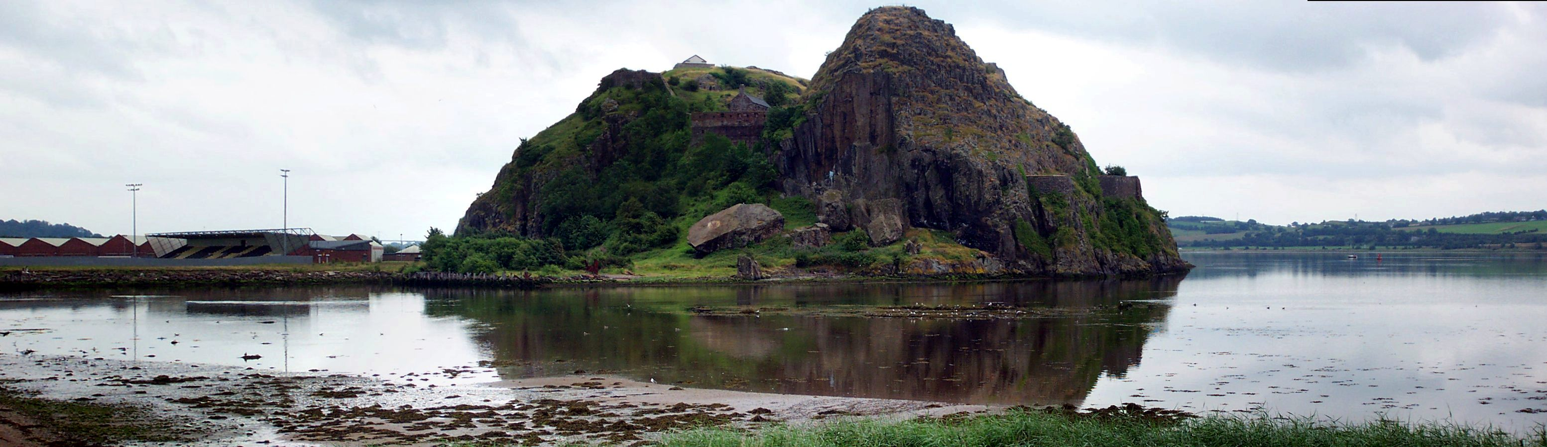 Photograph of Dumbarton Castle taken on 27 July 2006.